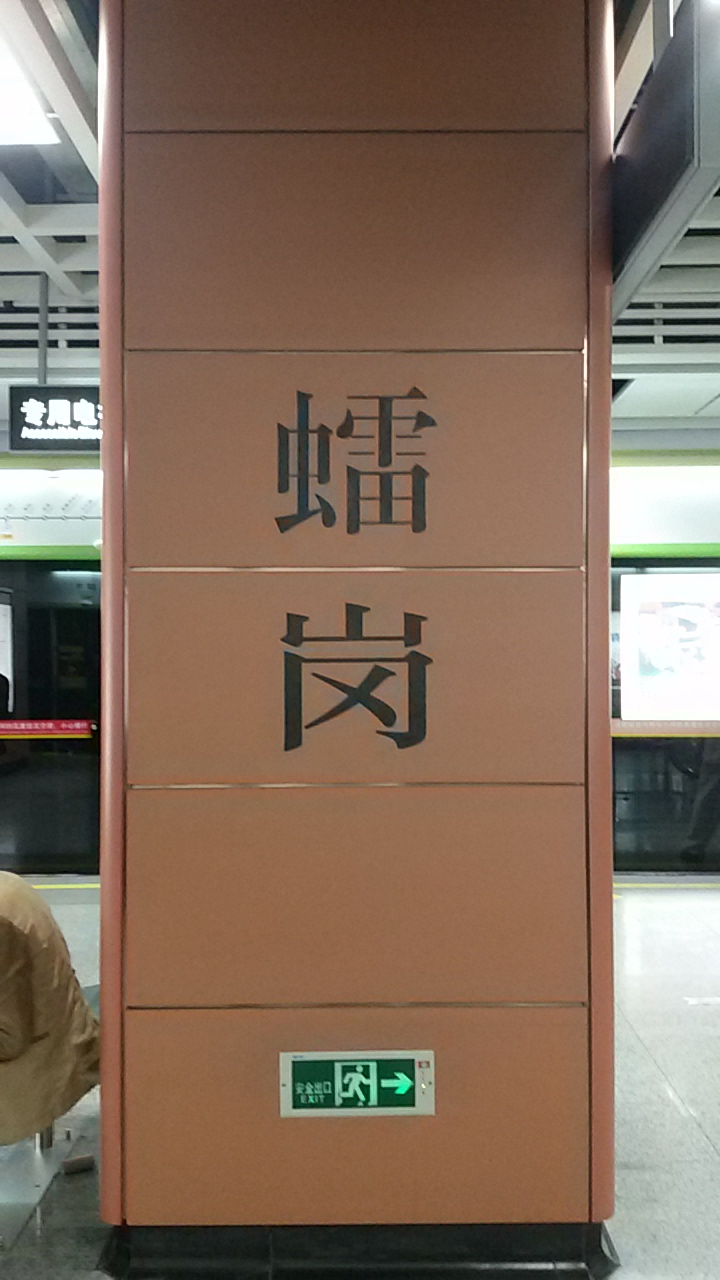 粵語: WORD on PILLAR for Leigang Station in Foshan Metro 粵語: 佛山地鐵，𧒽崗站嘅柱上啲字。